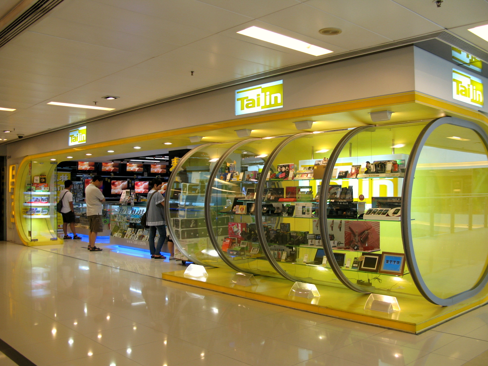 HK Tailin Store In New town Plaza 泰林無線電行於沙田新城市廣場分店